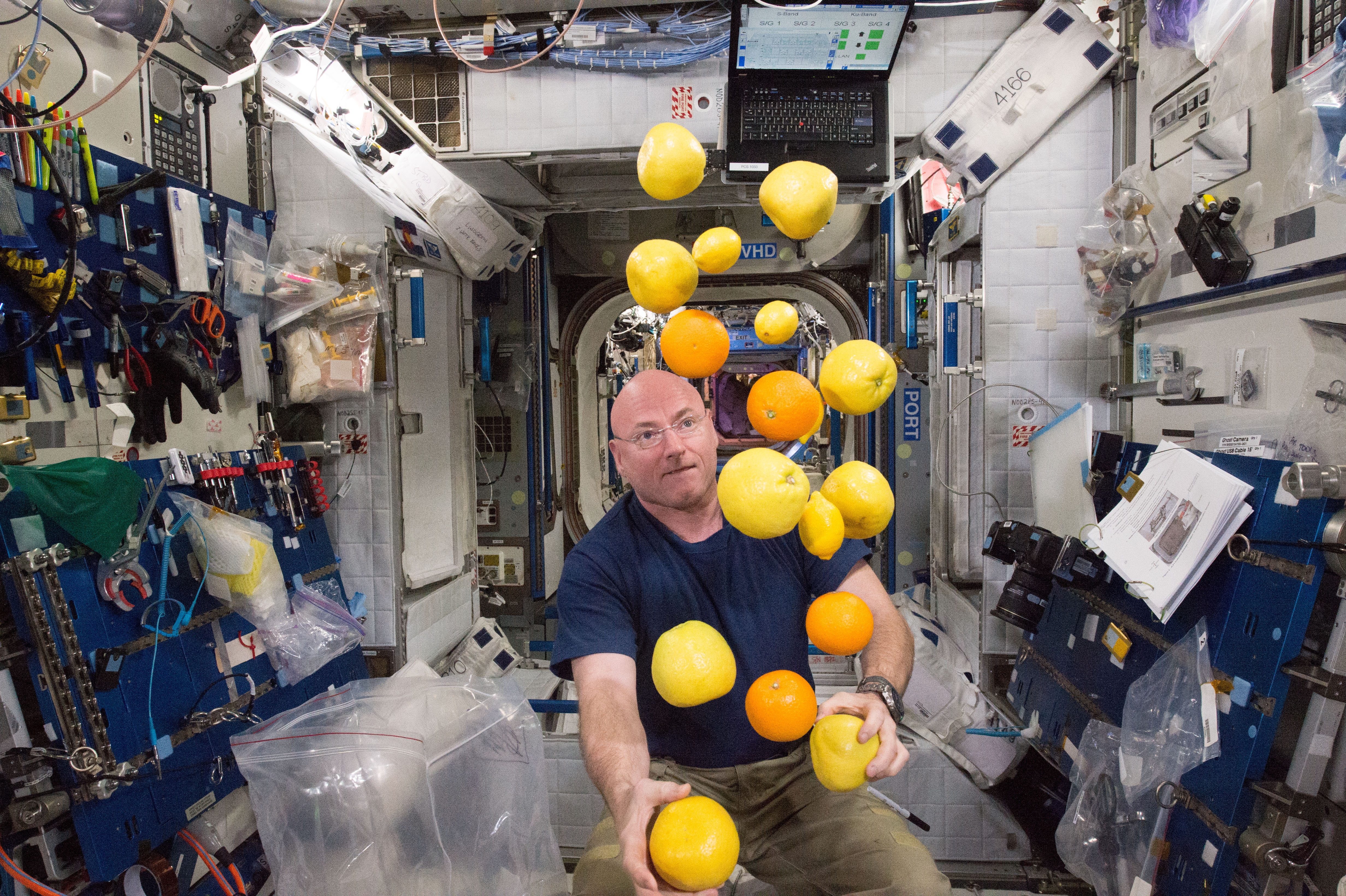 NASA astronaut Scott Kelly corrals the supply of fresh fruit that arrived on the Kounotori 5 H-II Transfer Vehicle (HTV-5.) Visiting cargo ships often carry a small cache of fresh food for crew members aboard the International Space Station.